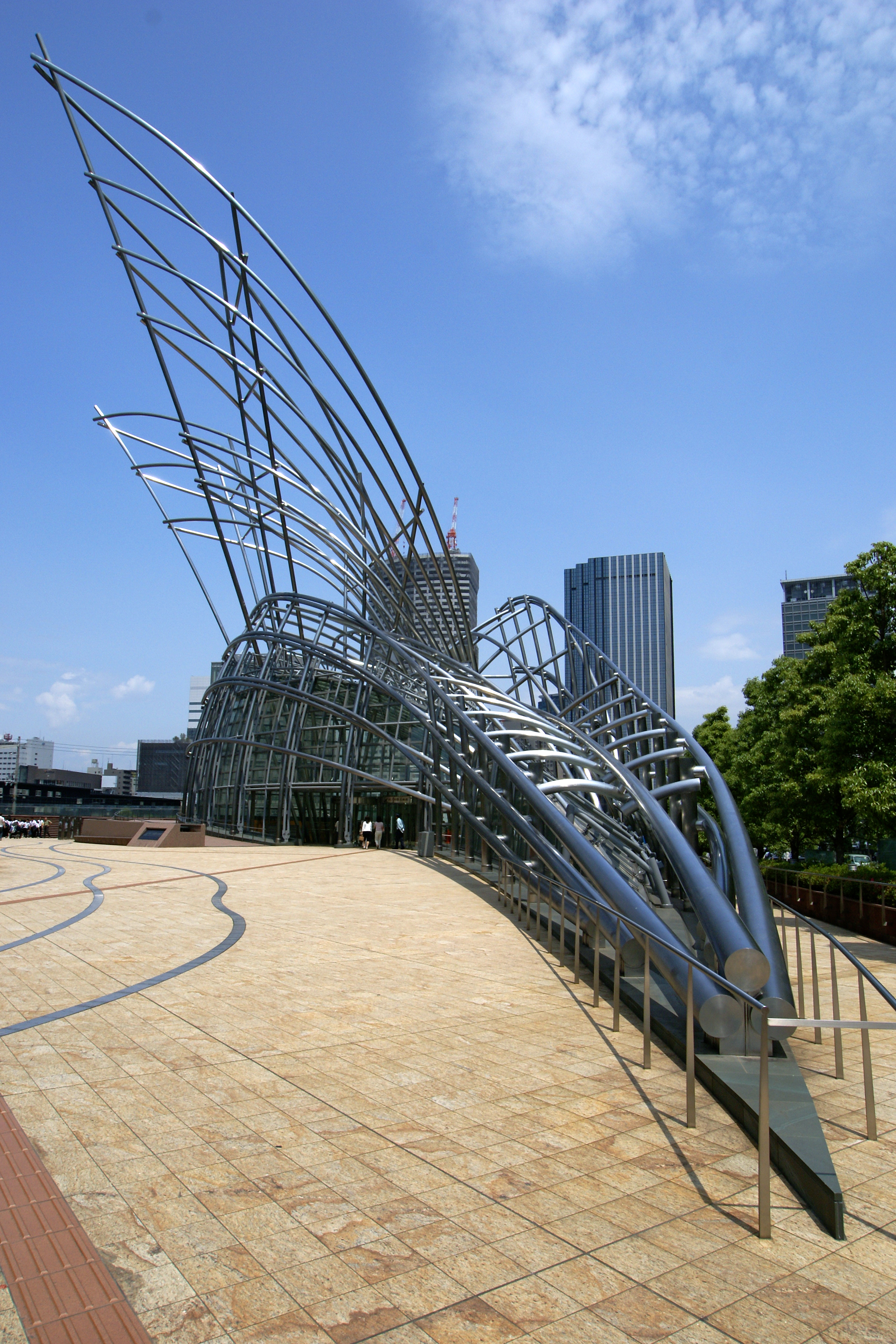 "The National Museum of Art, Osaka" in Osaka, Osaka prefecture, Japan